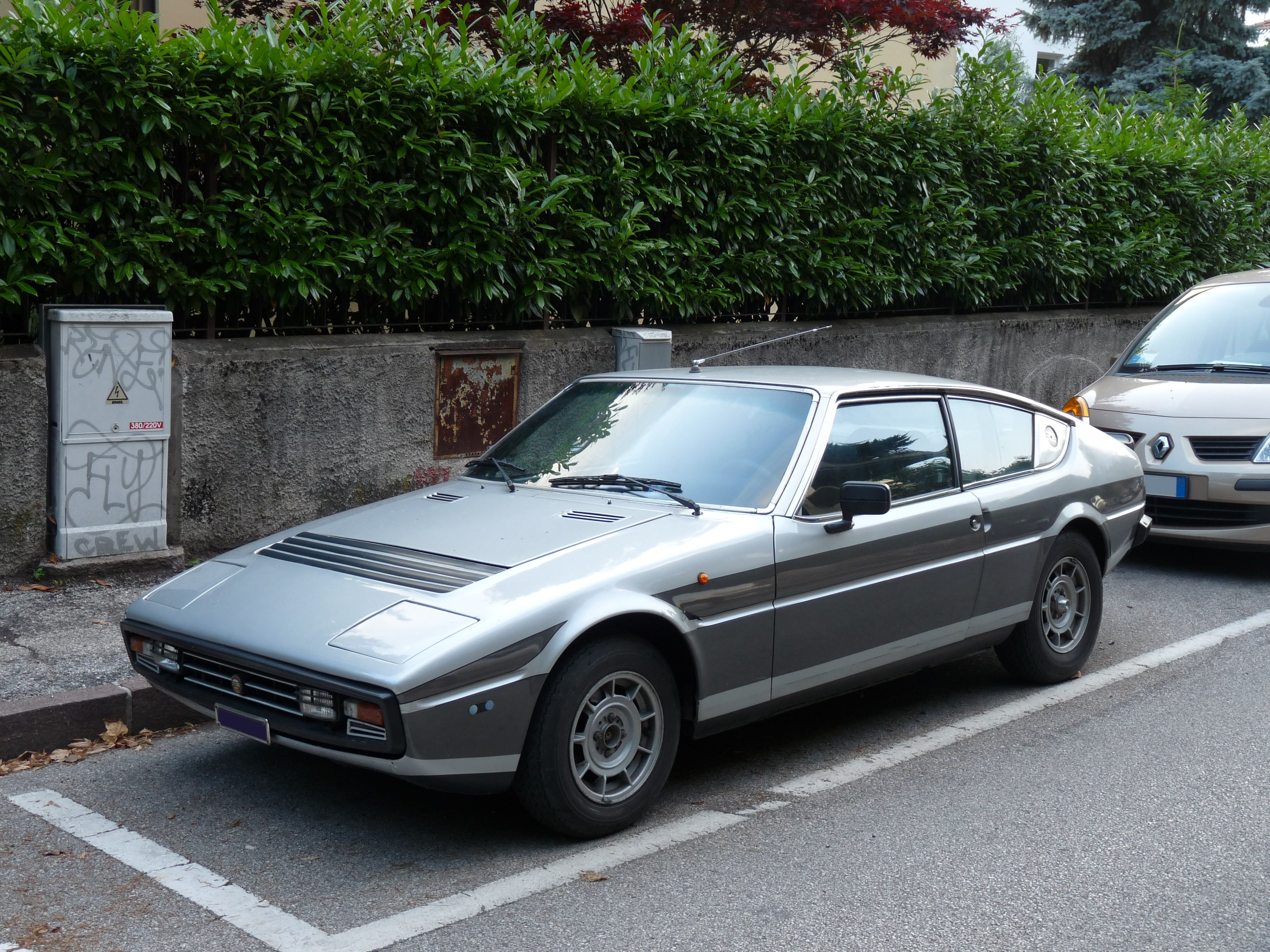 A grey Matra-Simca Bagheera